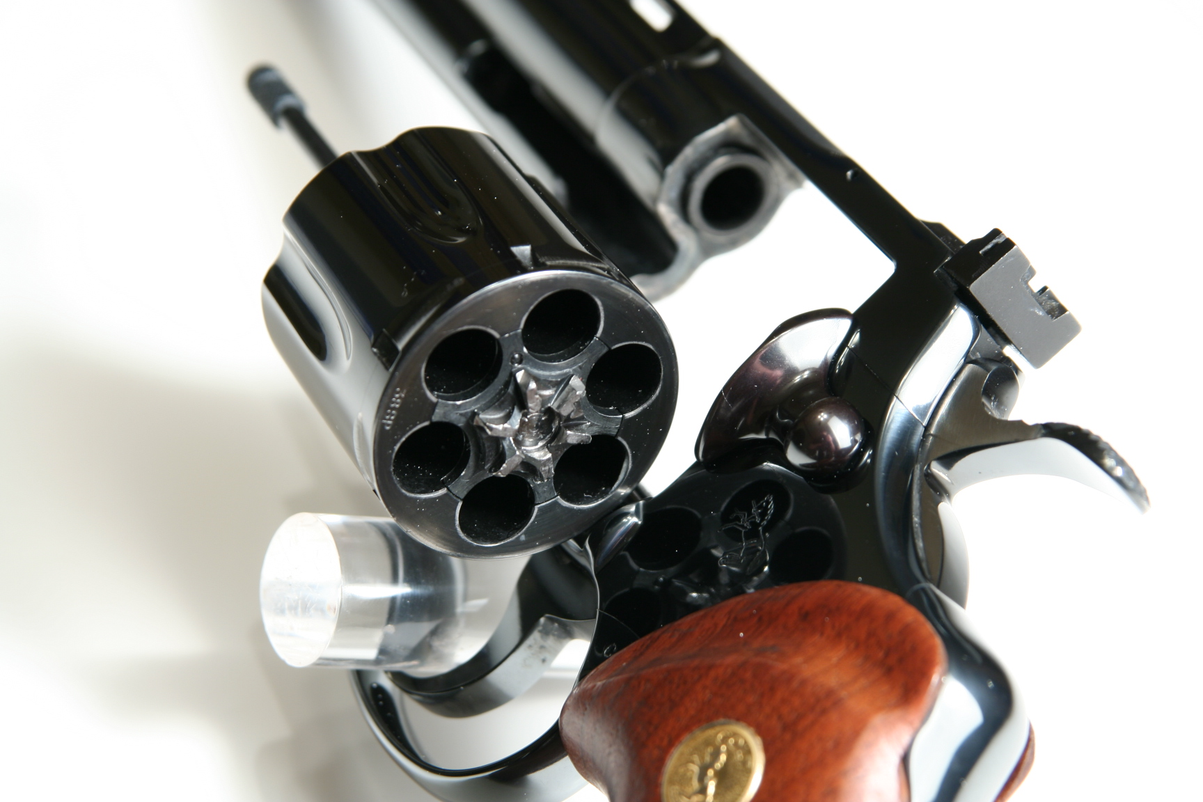 Colt Python